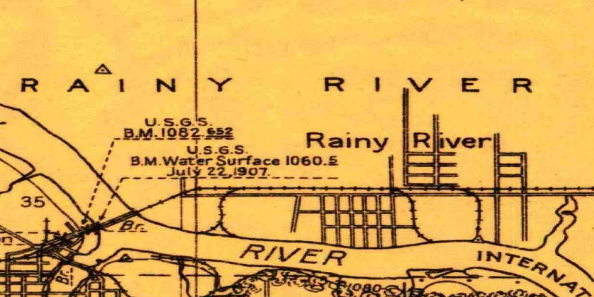 This is a map of the Town of Rainy River circa 1910. Showing the streets and rail lines. note the 2 spur lines that fed the mills